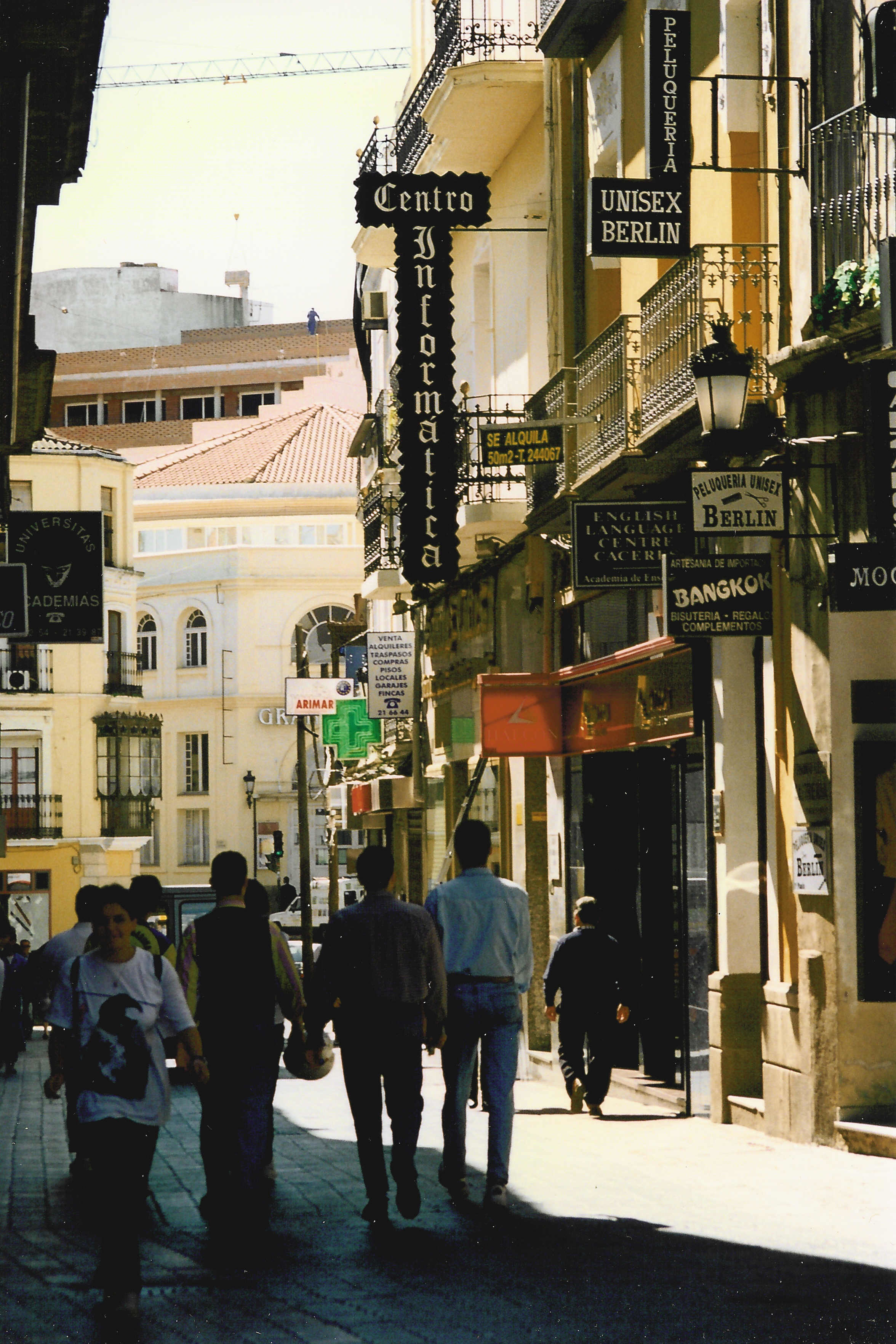 In the center of the modern city of Cáceres, Extremadura, Spain